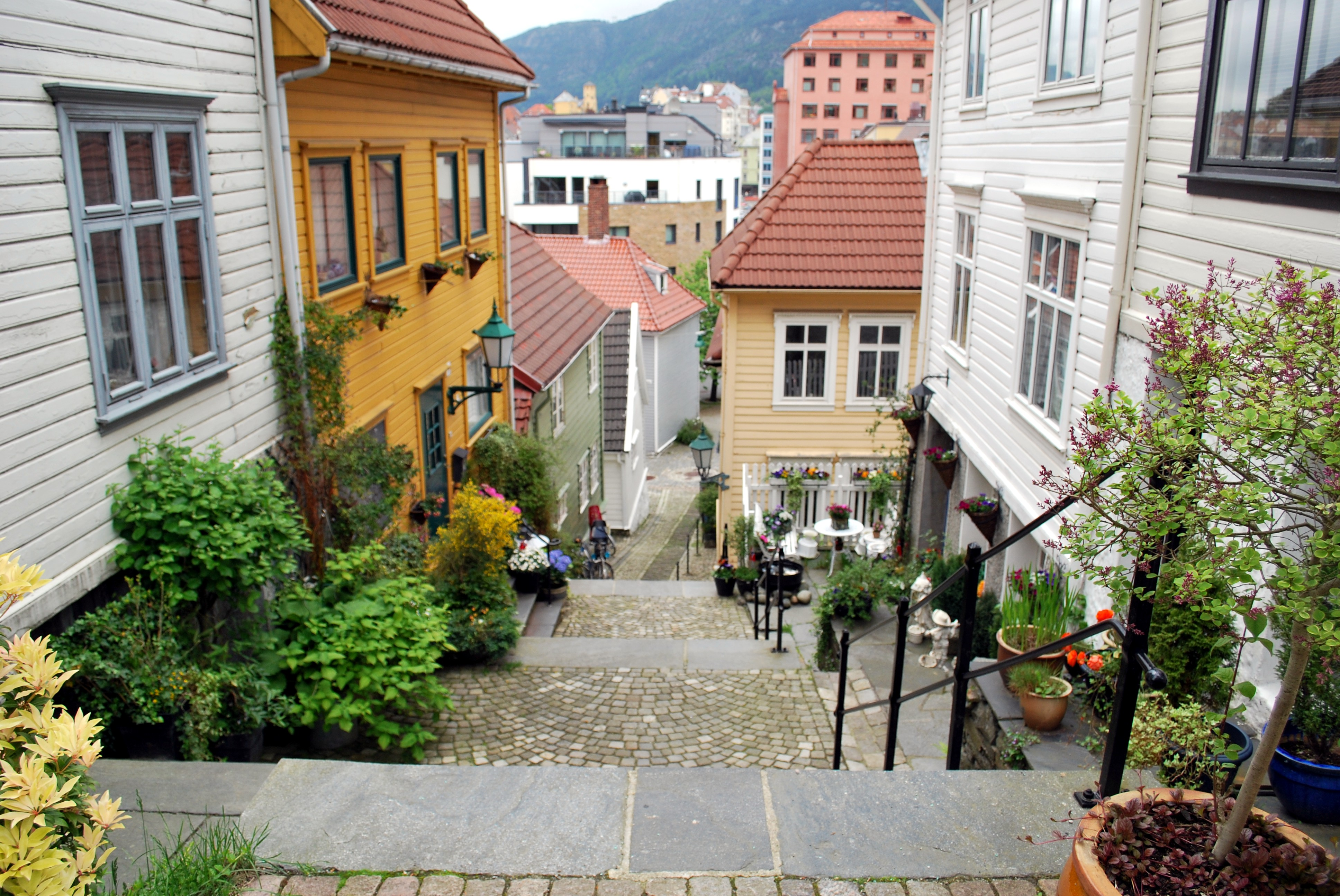 Sydneshaugen, Bergen, Norway.